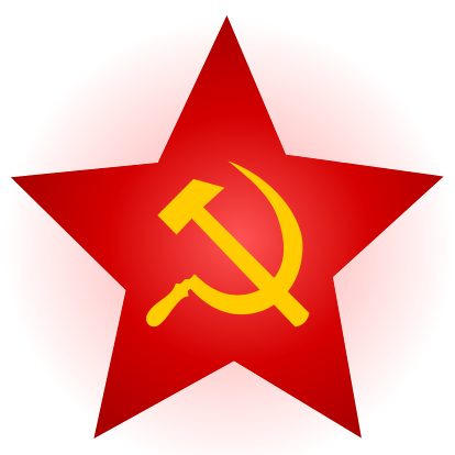 Hammer and sickle on a red star with glowing background